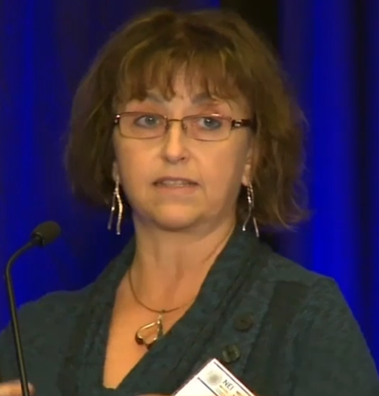 Dora Angelaki, Ph.D., Baylor College of Medicine, speaks on Dynamics of Eye Movements During Visual Path Integration at the National Eye Institute 50th Symposium on Vision and the Brain in 2017. Air date: Friday, November 10, 2017, 9:00:00 AM